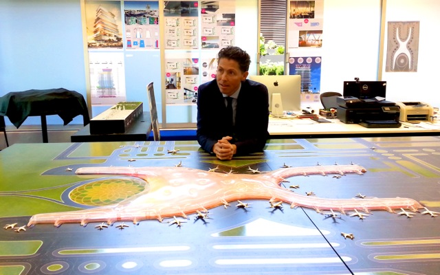 Architect Fernando Romero with model of the proposed new Mexico City Airport